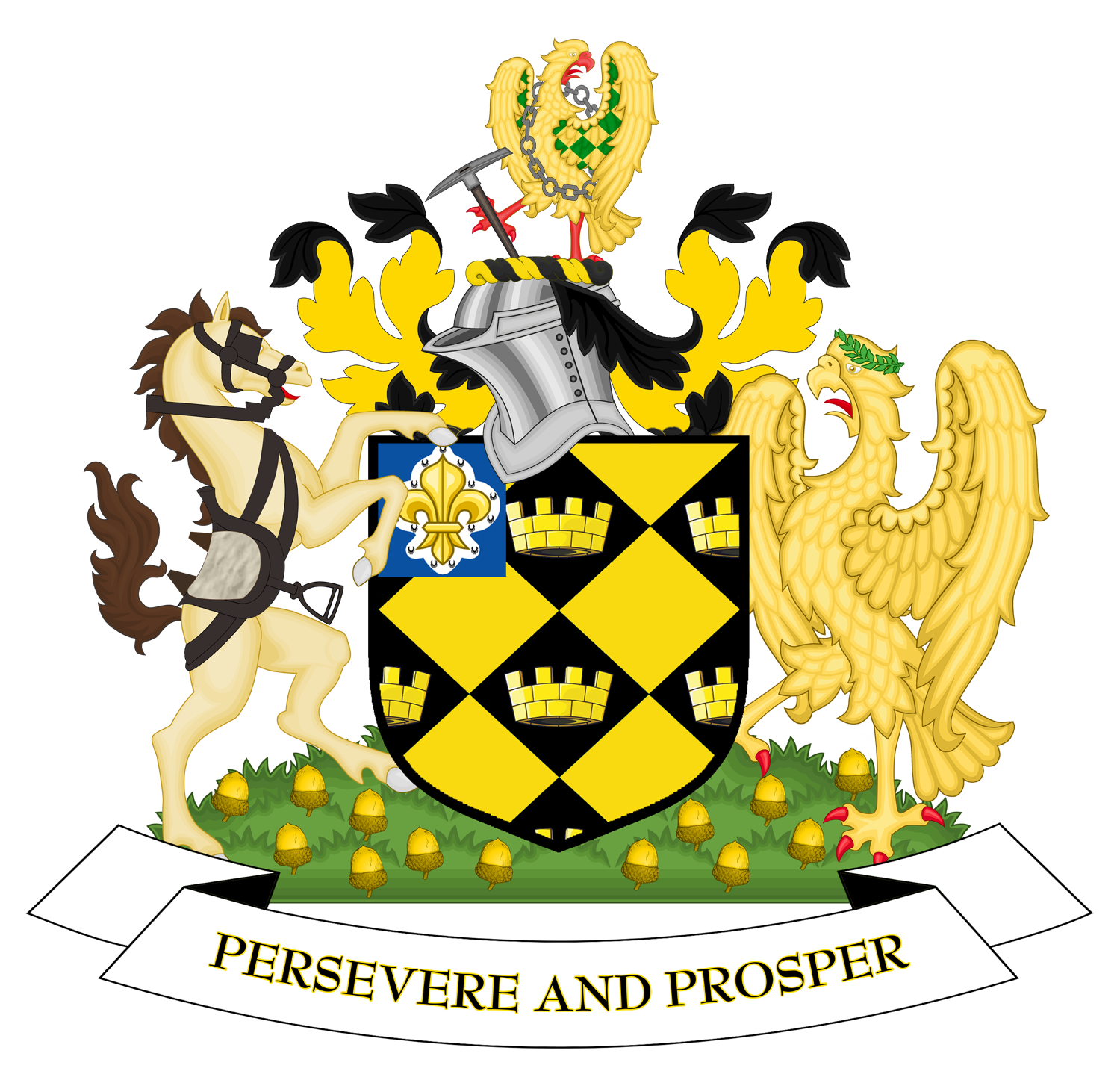 The Coat of arms of Wakefield City Council, the local government authority for the City of Wakefield, in West Yorkshire, England.